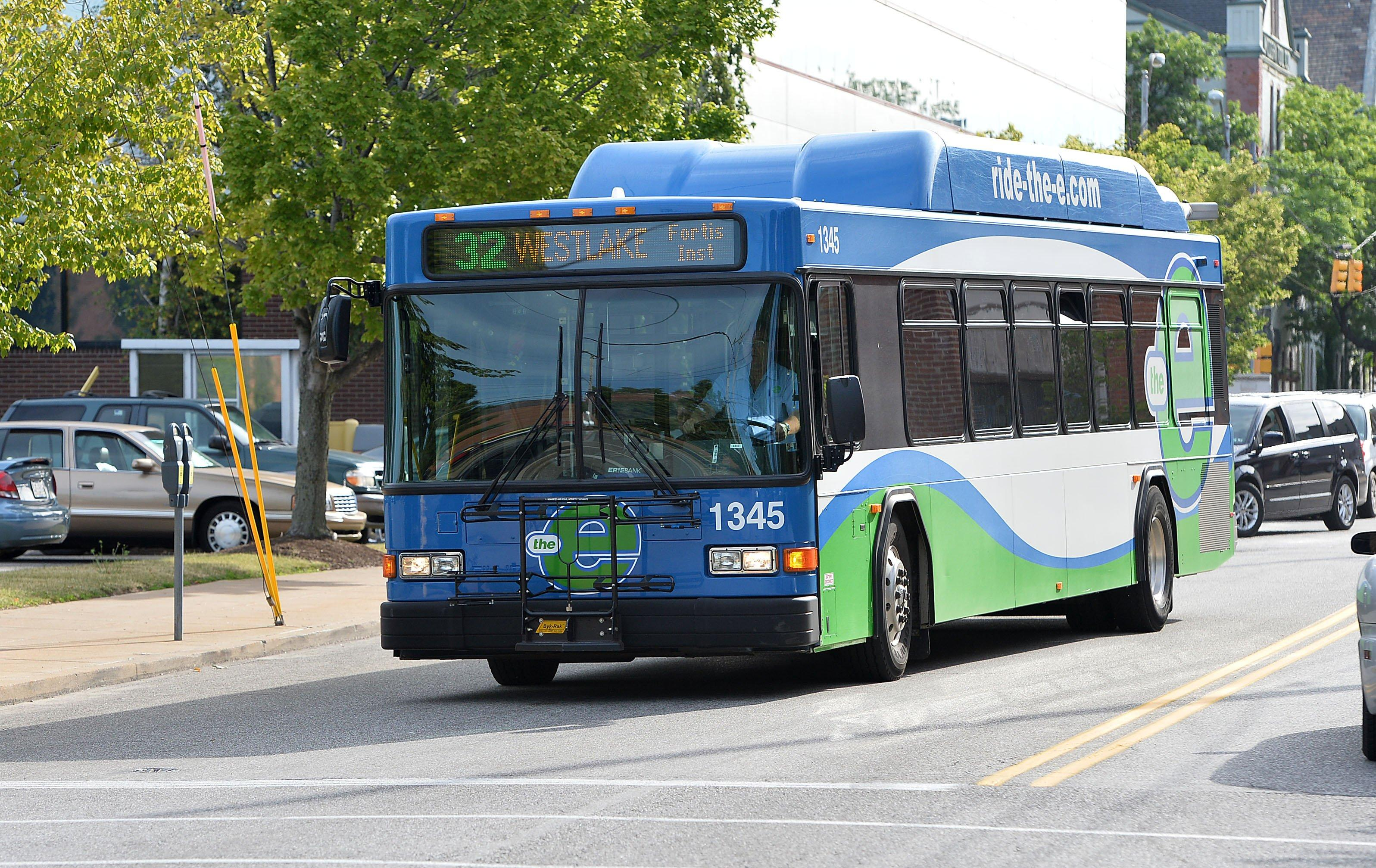 EMTA Bus